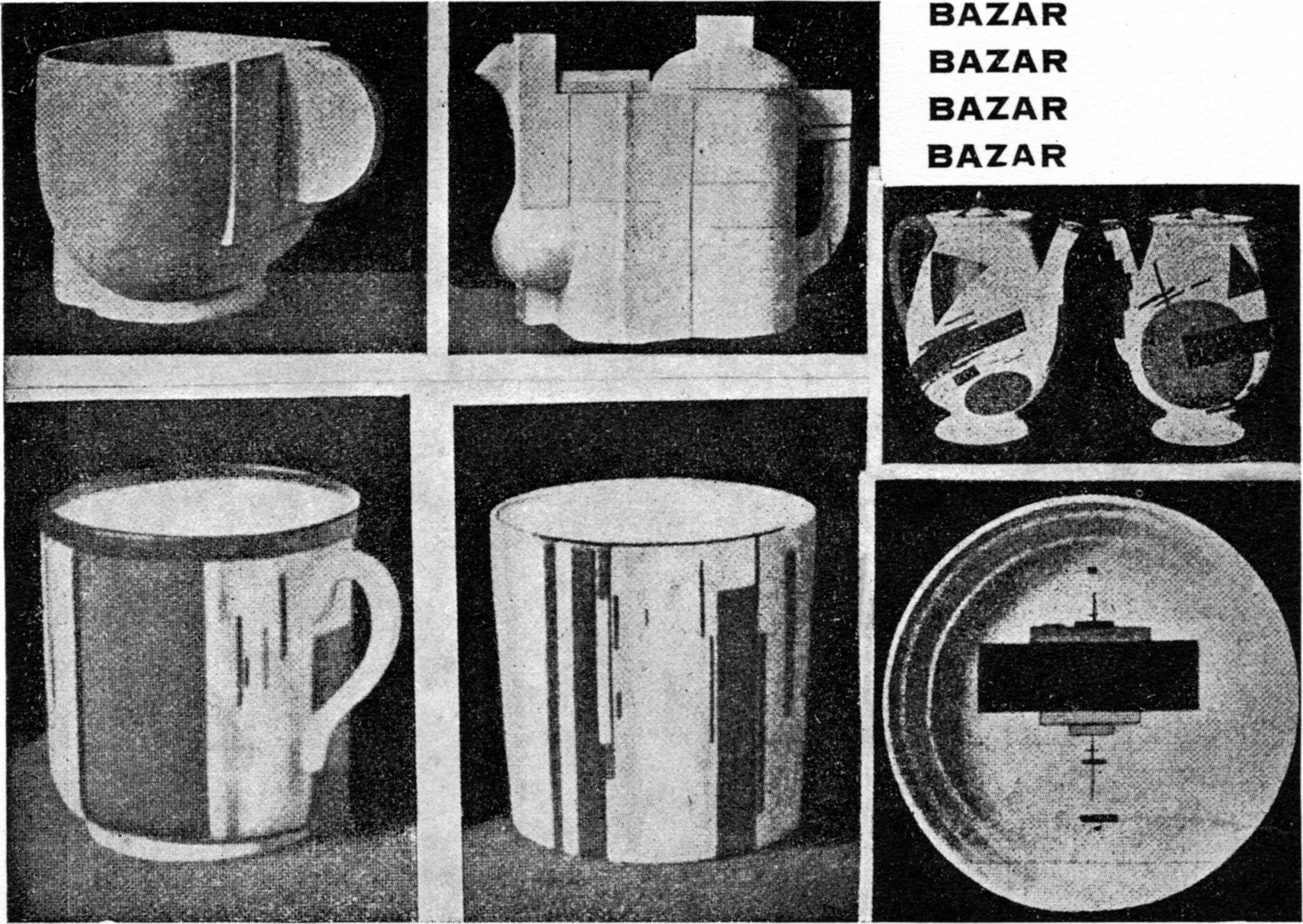 Kazimir Malevich. Dishware.